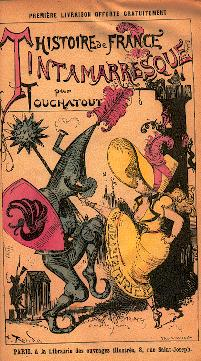 Illustration by Albert Robida (1848-1926) for Histoire de France tintamarresque (vol. I, 1872) by French journalist and writer Léon Bienvenu a.k.a. Touchatout (1835-1911).